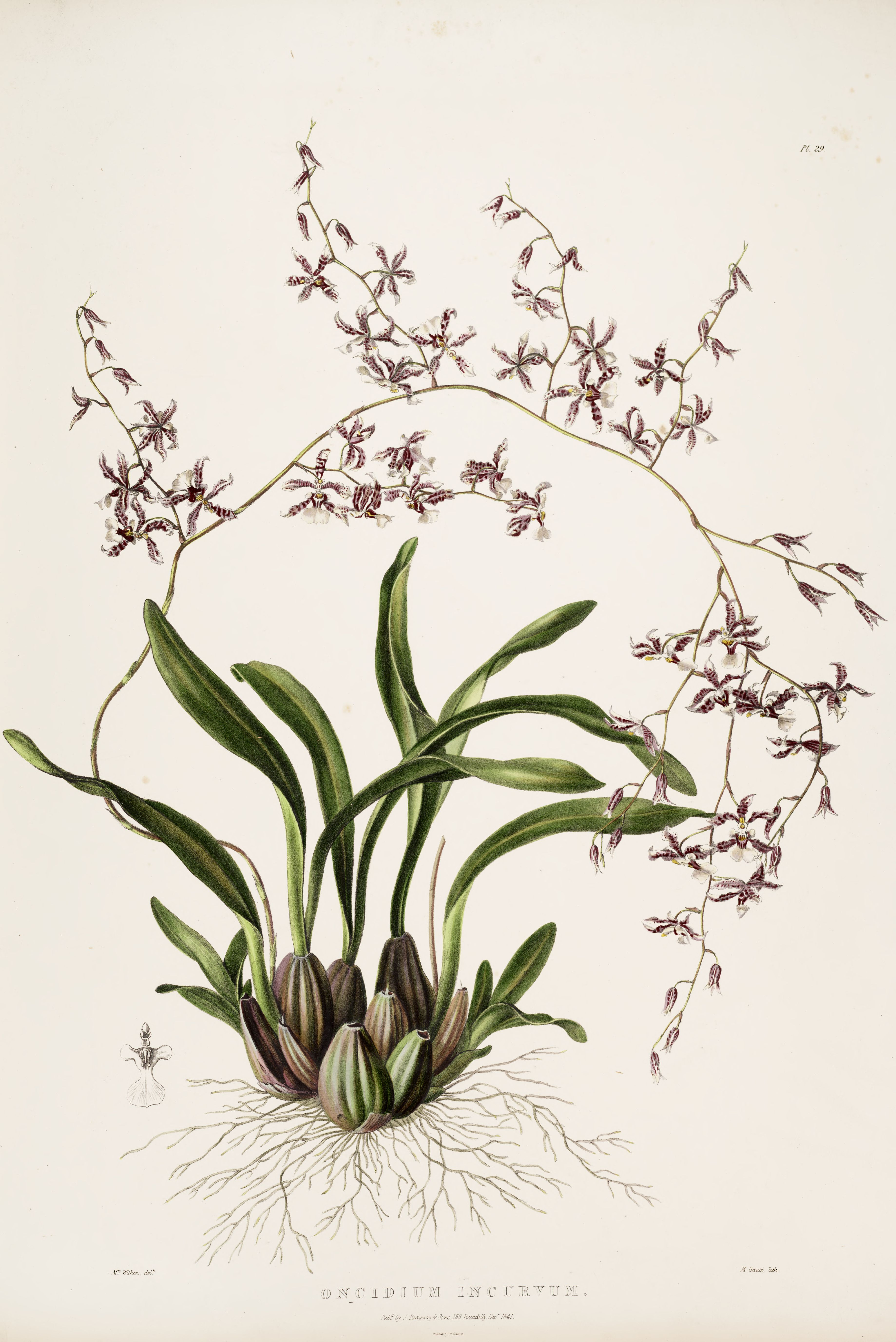 Illustration of Oncidium incurvum